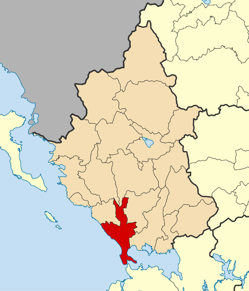 Locator map for Preveza municipality in Greek region Epirus (2011)